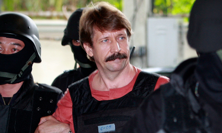 Viktor Bout in Thailand escorted by local police